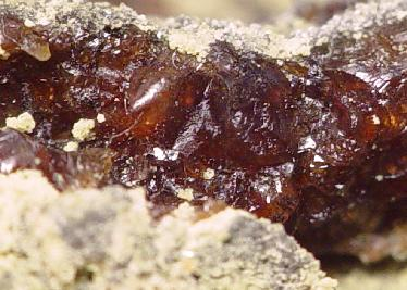 Römerite Locality: Island Mountain Mine, Island Mountain, Trinity County, California, USA (Locality at ) Dozens of deep red, attractive crystals to 2 mm of the rare iron sulfate Römerite make this an attractive and rich specimen for the species. It is 1 of 3 pieces obtained from a single large piece which I broke open to explore a vein of crystals that seemed to run inside. Interestingly, this locality has NOT been reported for the species according to the MINDAT database, though its possible that the county borders have shifted since 1925 and this now overlaps one of the mines noted (?). In any case, this collector named Vonsen seems to have provided a number of Californian specimens to Gage. He must have regarded this as an exceptional acquisition at the time (and compared to what I have seen of the German stuff, it IS exceptional for the species). 6 x 4 x 3.5 cm